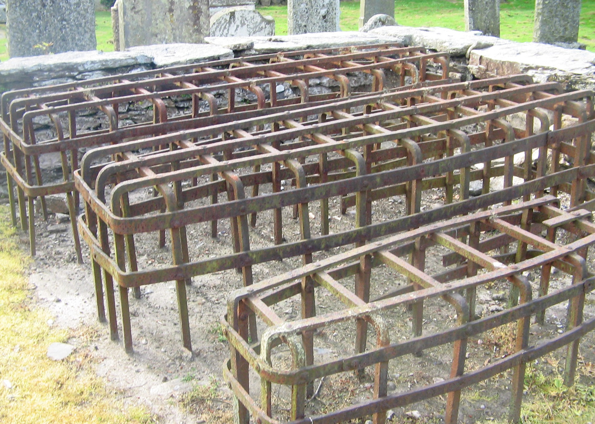 Mortsafes at a church yard in Logierait, south of Pitlochry, Perthshire, Scotland.